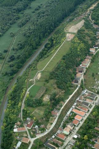 Dunakömlőd, Paks, Tolna County, Hungary, aerialphotography